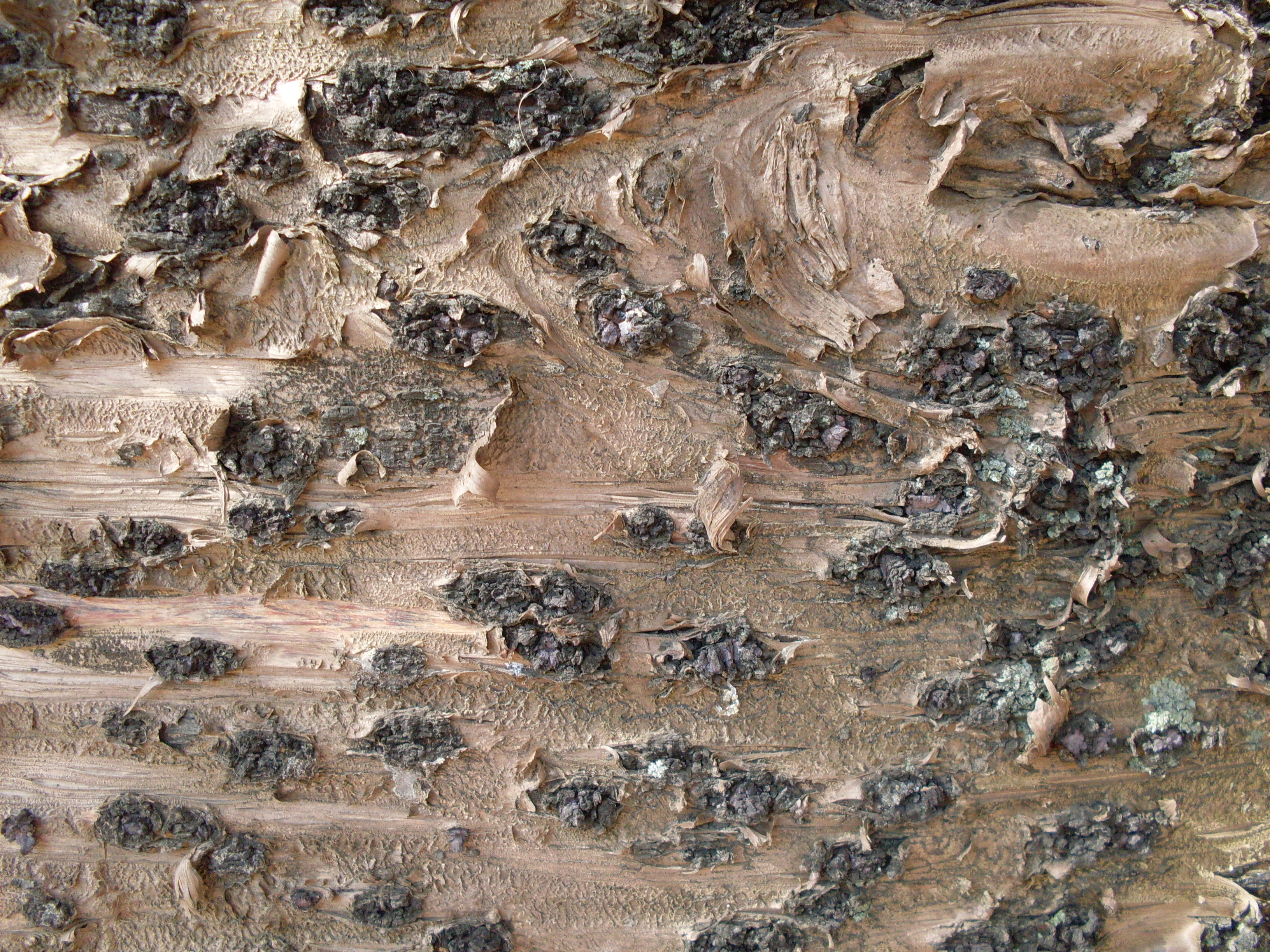 Bark of a Norfolk Island pine (Araucaria heterophylla). Gerroa, NSW Australia, March 2009.